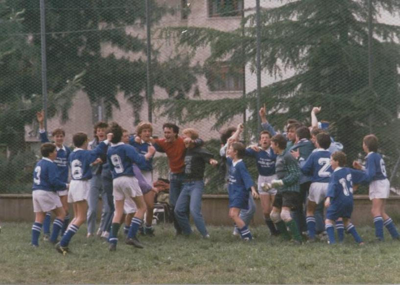 U.S. Niardo allievi